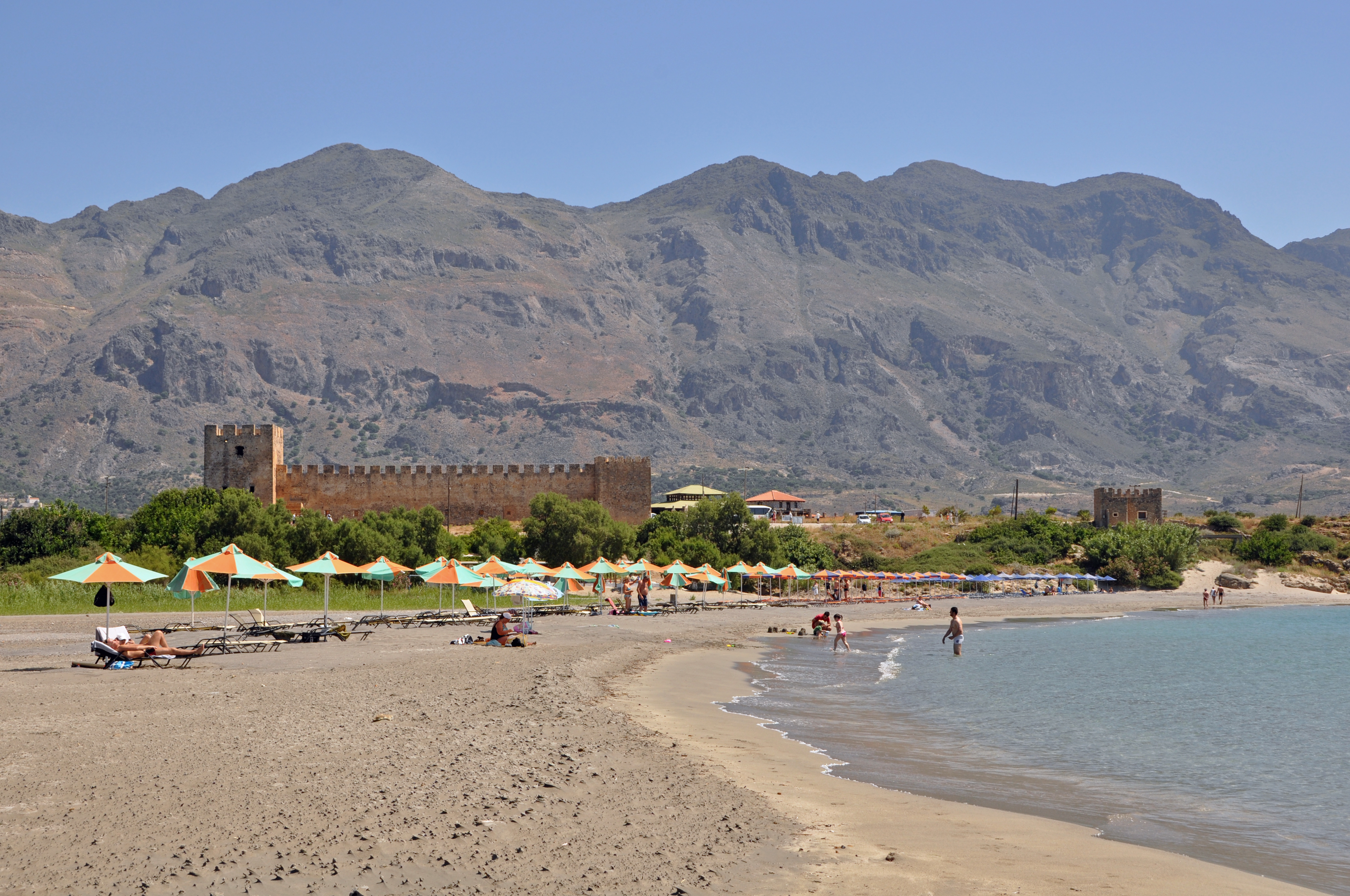 Frangokastello (Crete, Greece): the beach and the Venetian castle